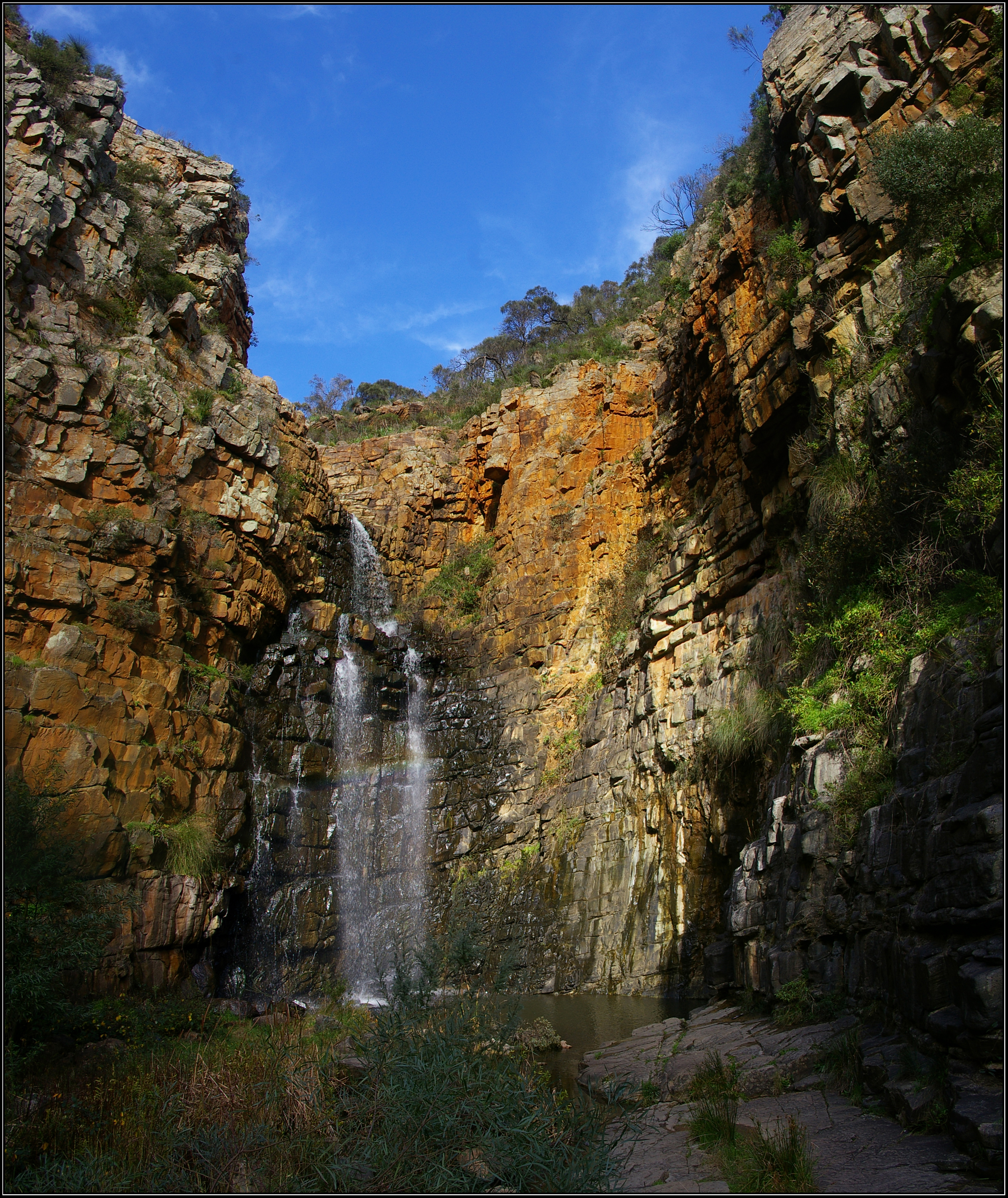 First Falls, Morialta Conservation Park, Adelaide. Peter Neaum.